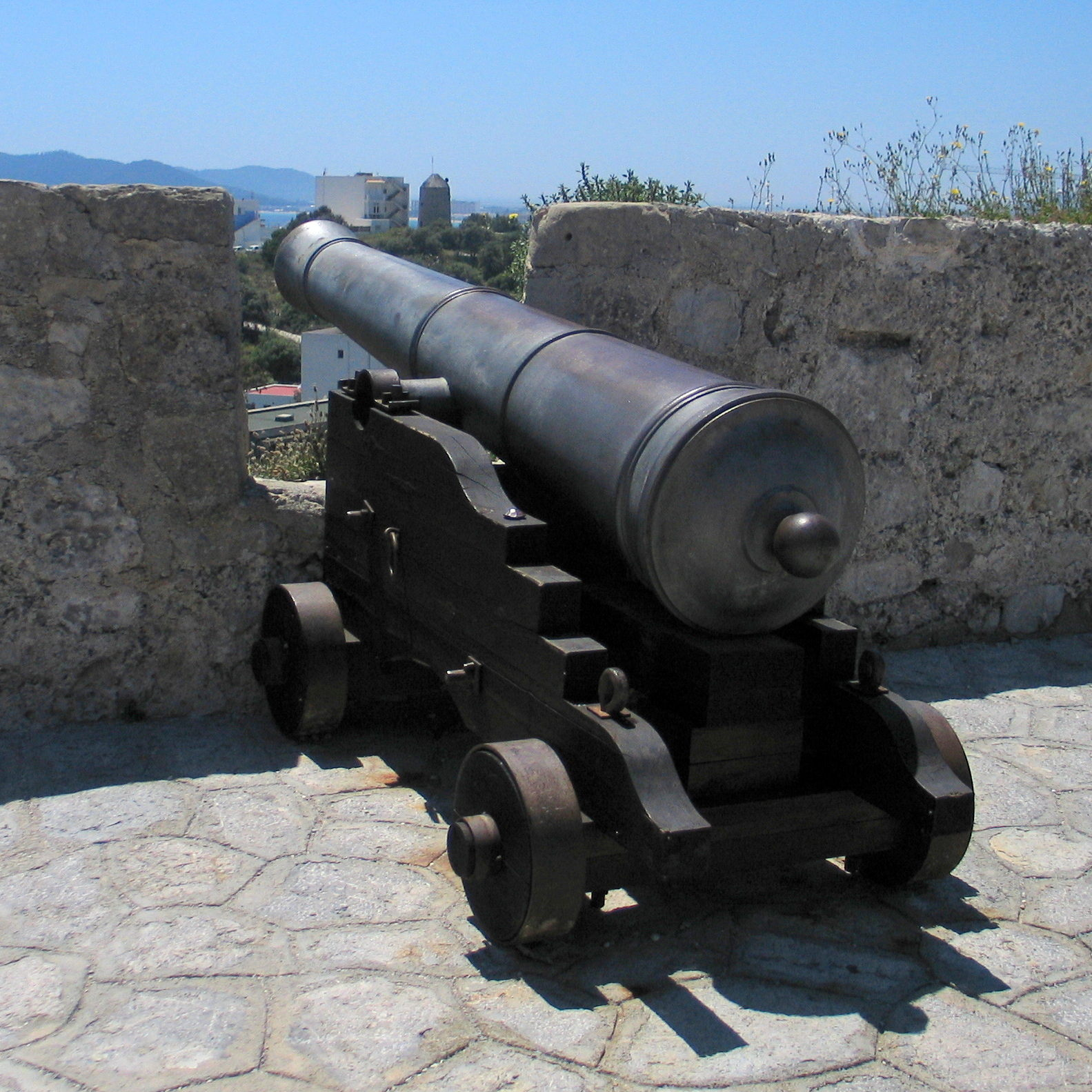 24 pounder at the remparts of Ibiza city